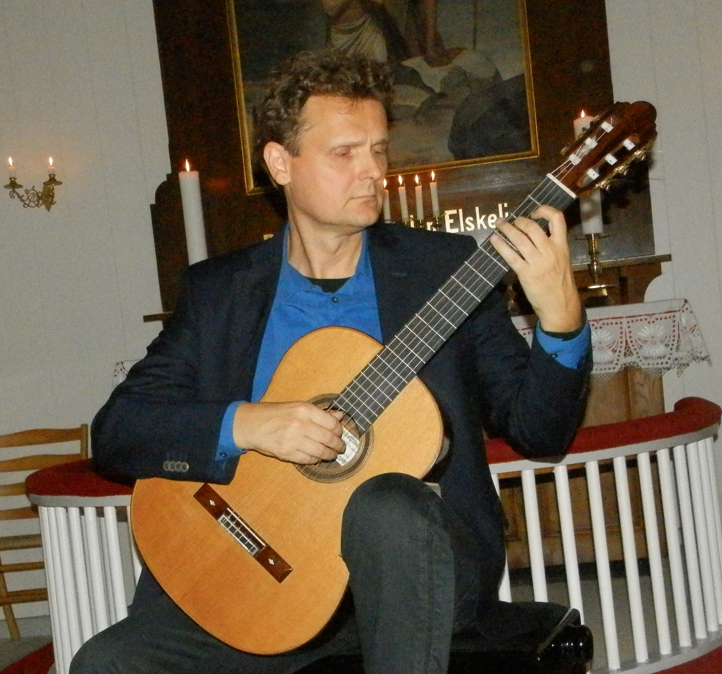 Ólavur Jakobsen is a Faroese classical guitarist. He studied at the Royal Danish Academy of Music in Copenhagen, where he received his diploma in 1995. This photo was taken in the church of Fámjin in Suðuroy, Faroe Islands at a concert.